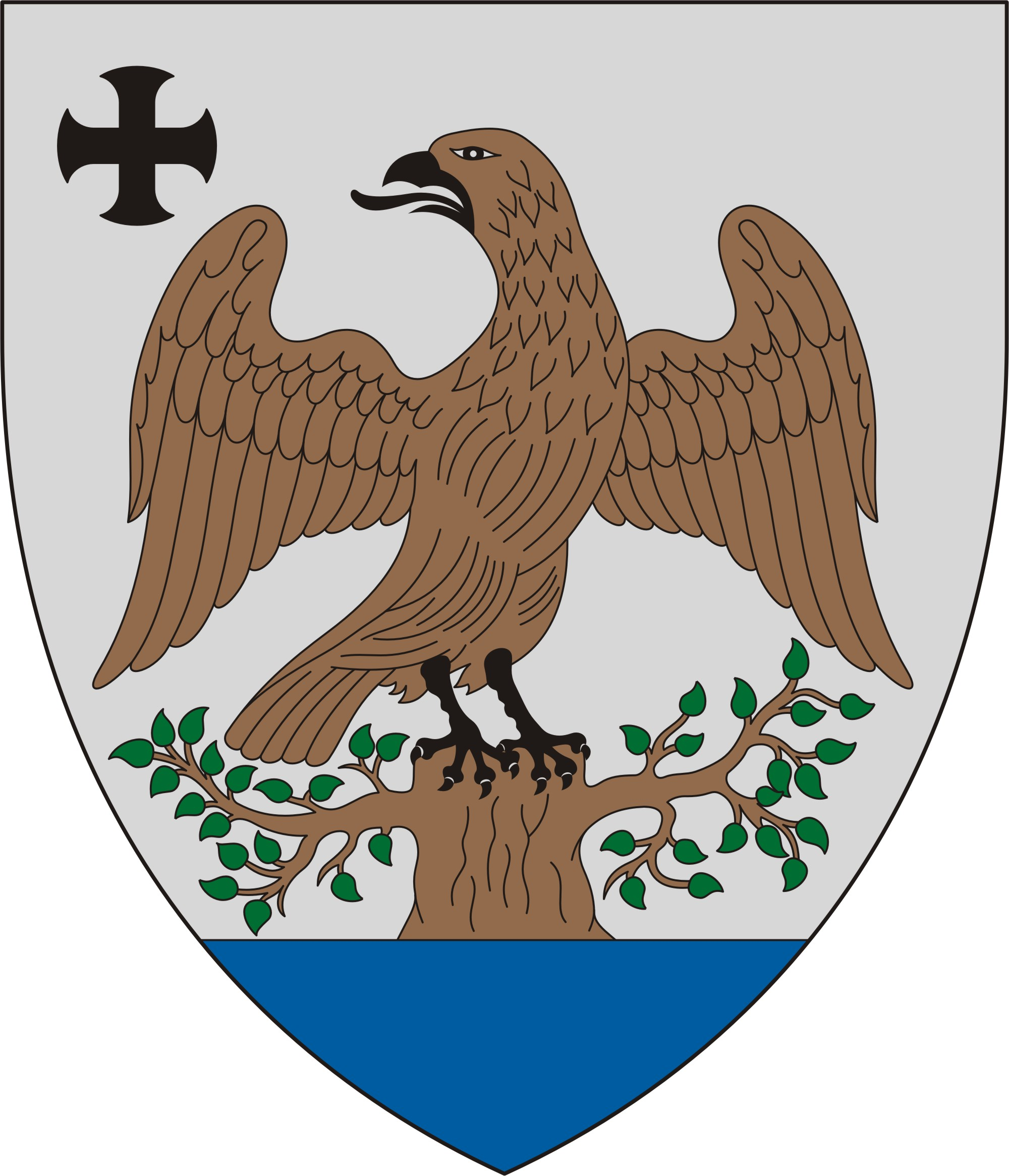 Coat of arms of Szegerdő, Hungary